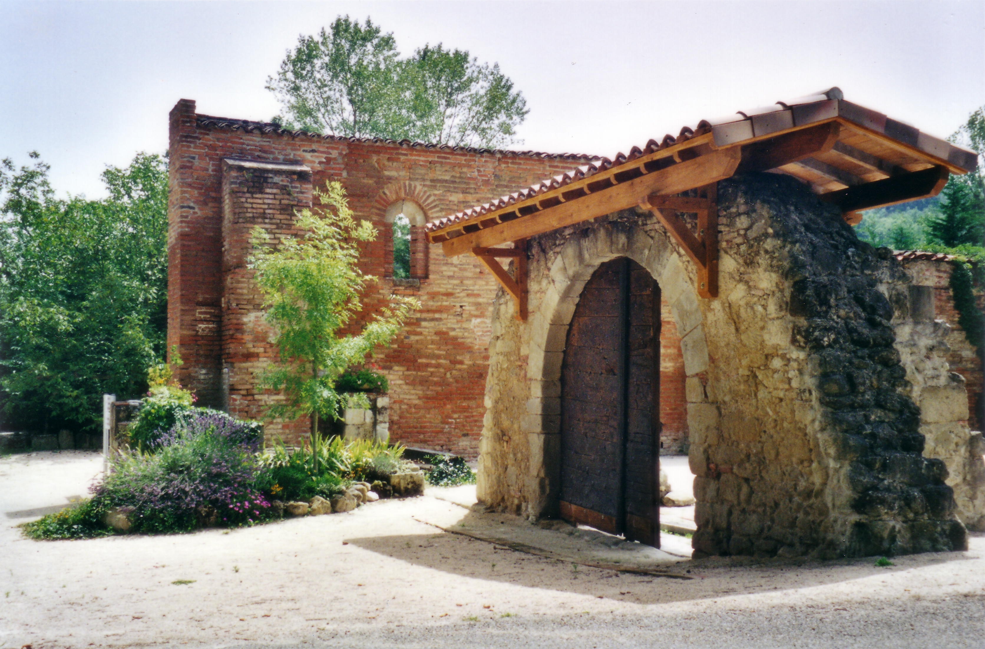 Saint-Laurent sur Save (France)